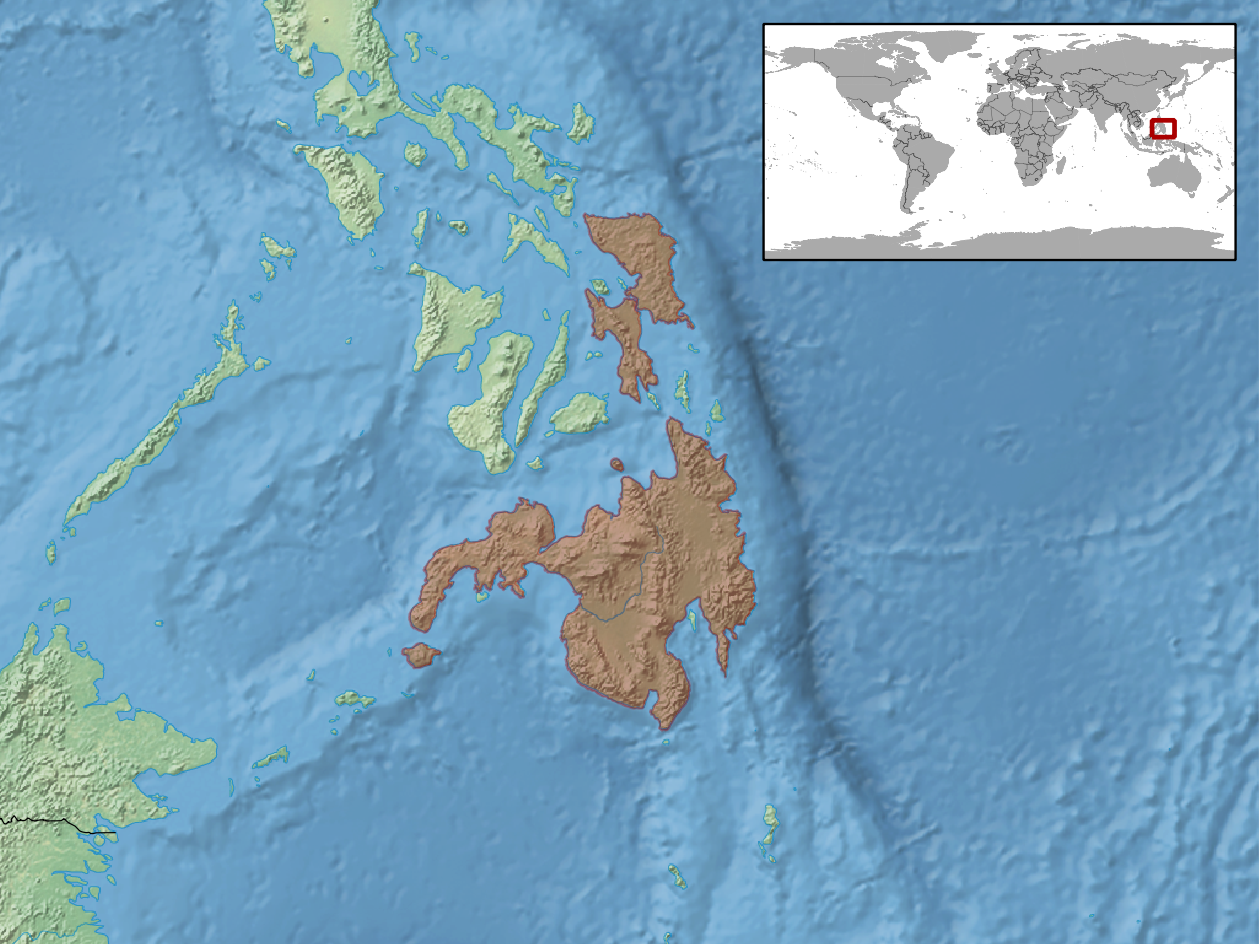 geographic distribution of Lepidodactylus aureolineatus (Native: Philippines)